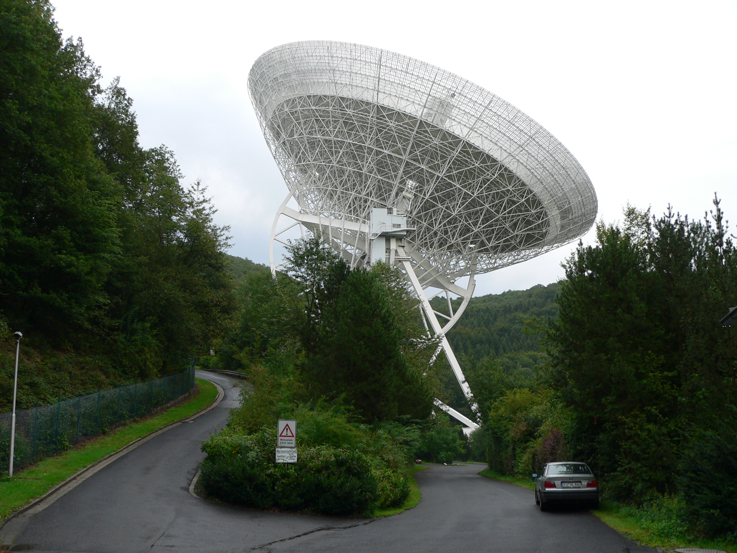 100 m Radio Telescope Effelsberg, Germany